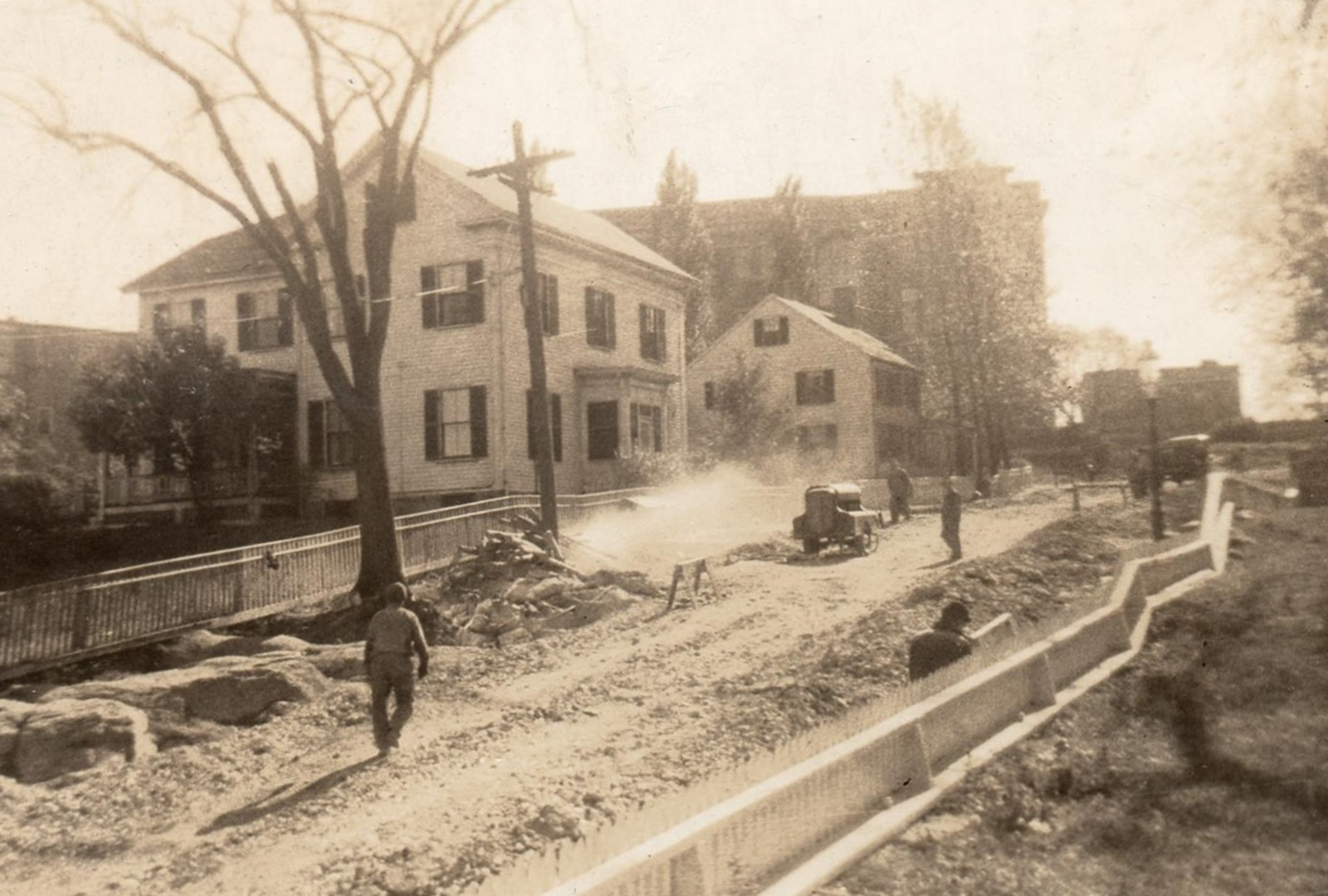 Italian WPA workers doing roadwork on High Street, Dorchester (Boston), 1930s.